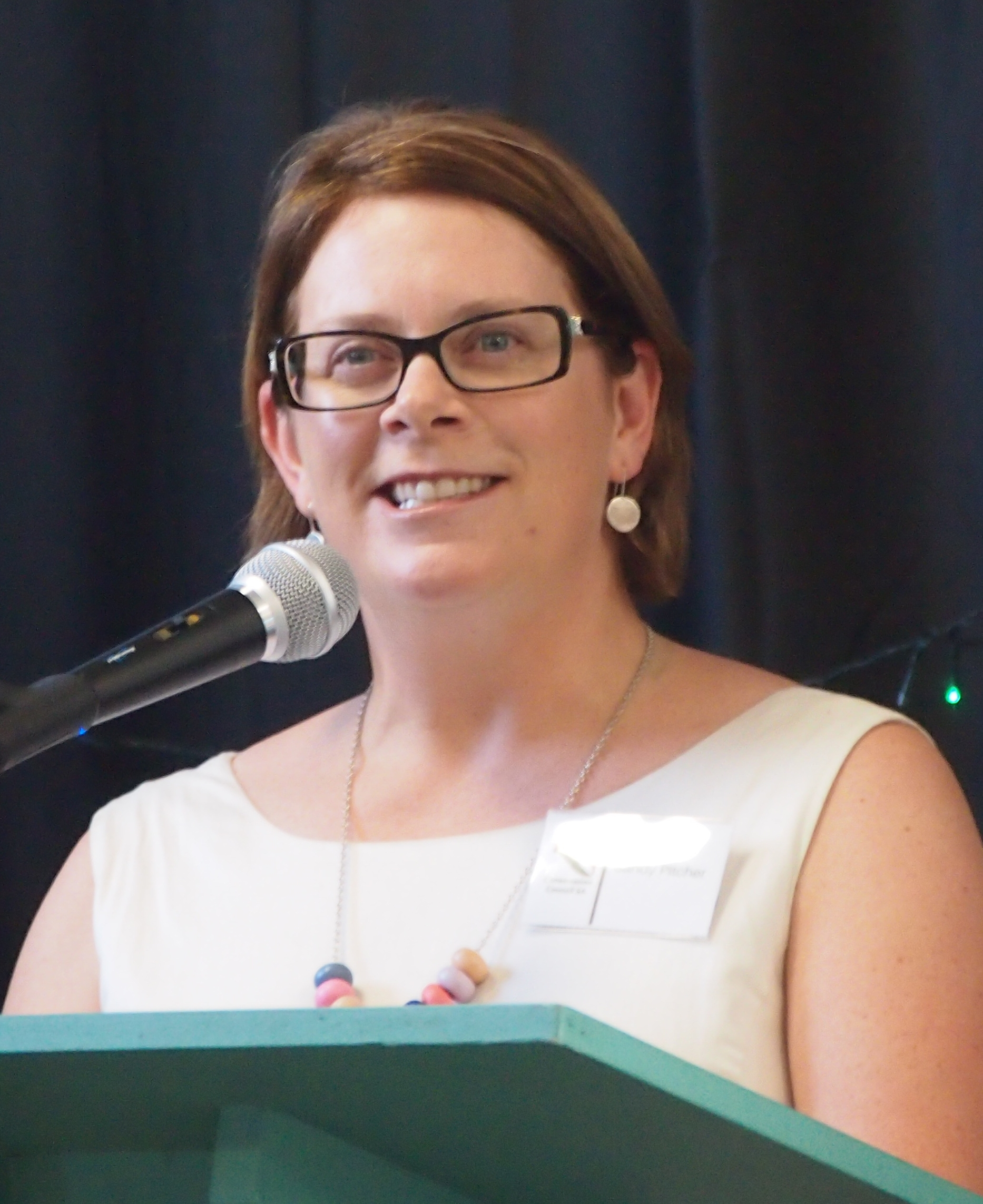 DEWNR CEO Sandy Pitcher presiding at the CCSA's 2015 Awards Night, 17 December 2015. Original filename = PC177189.JPG , cropped